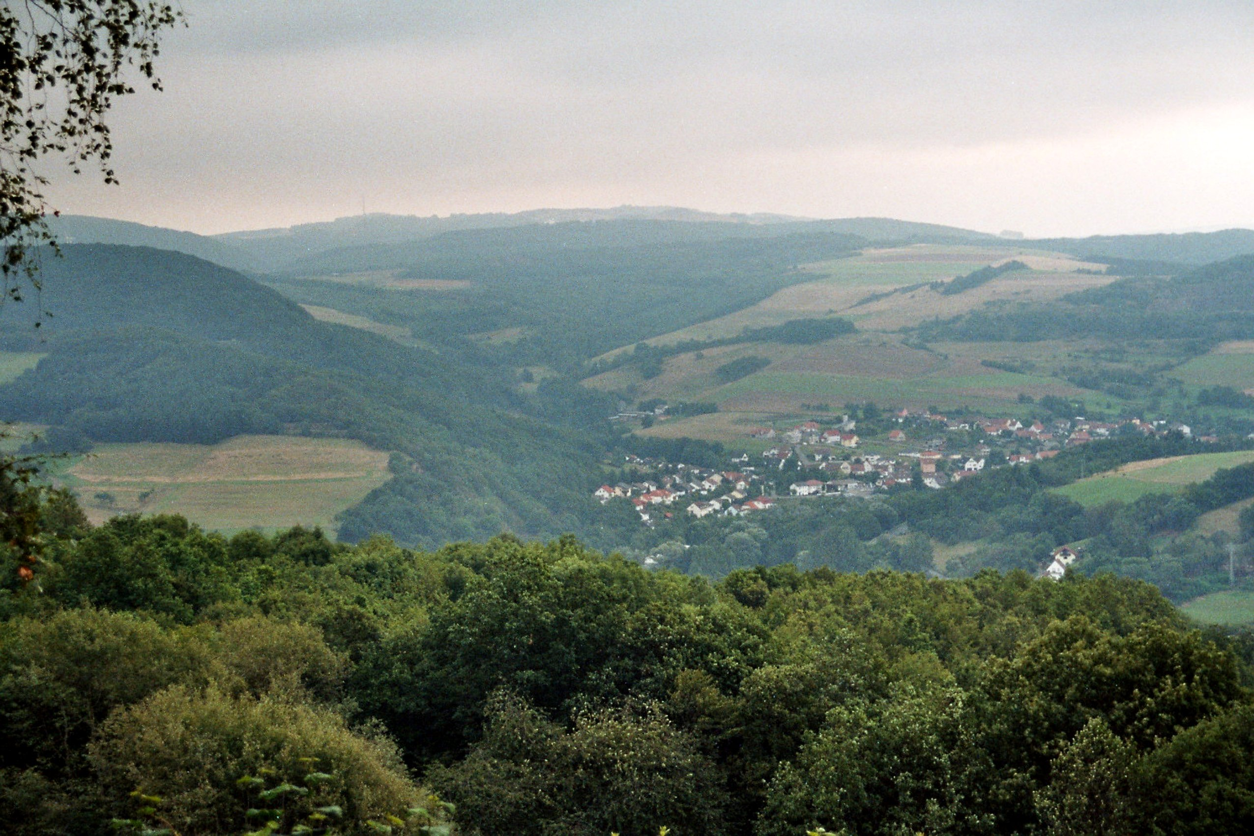 View to Altenglan